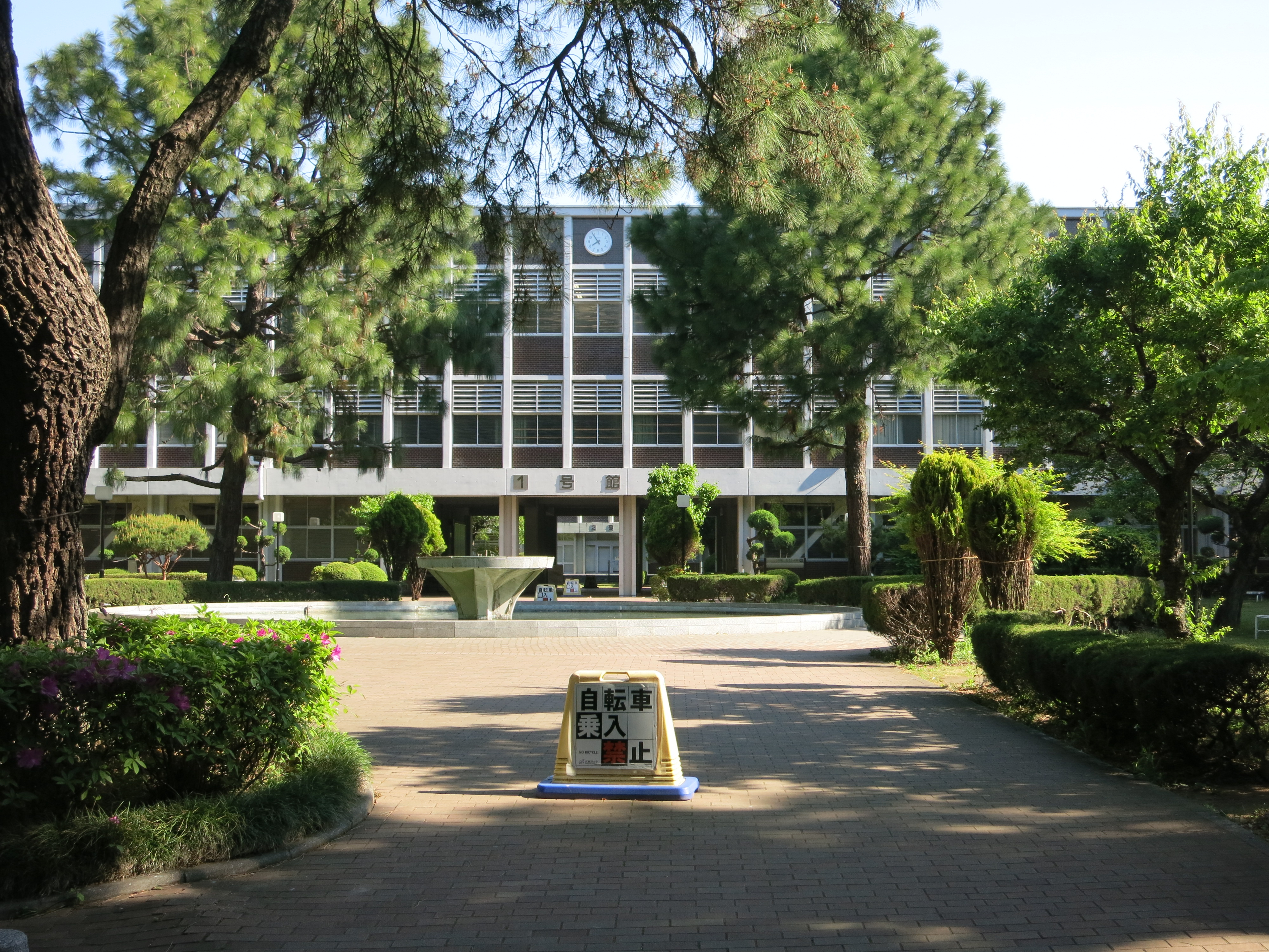 Musashino University, Building 1. Nishitokyo.